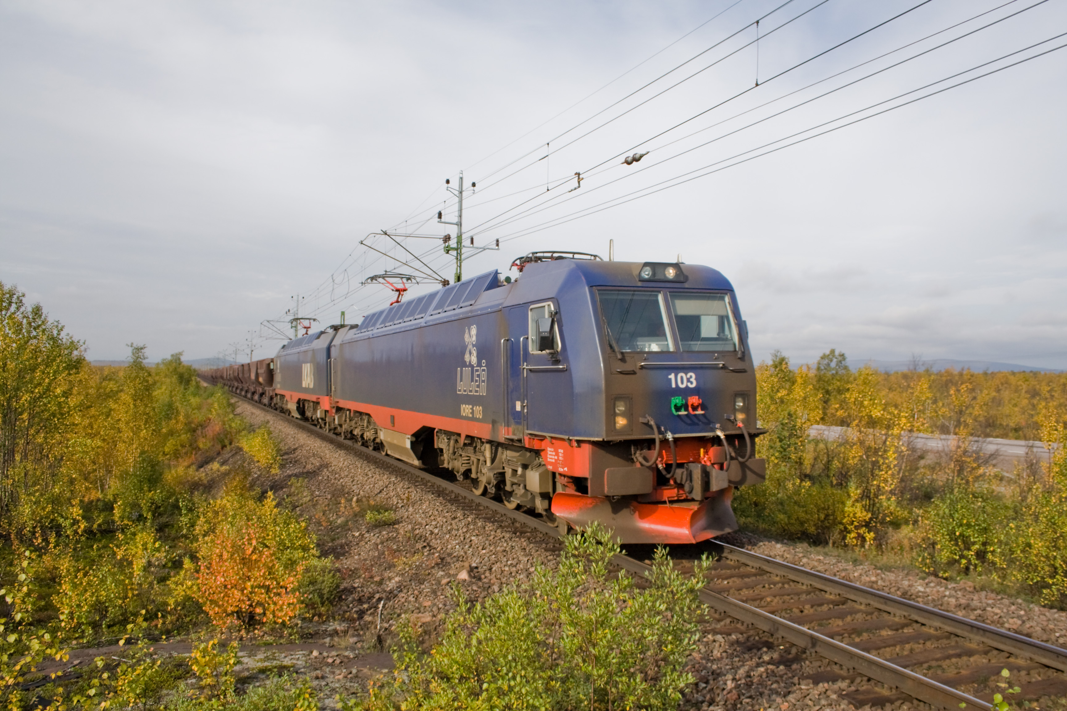 IORE from Narvik approaching Kiruna with an empty ore train